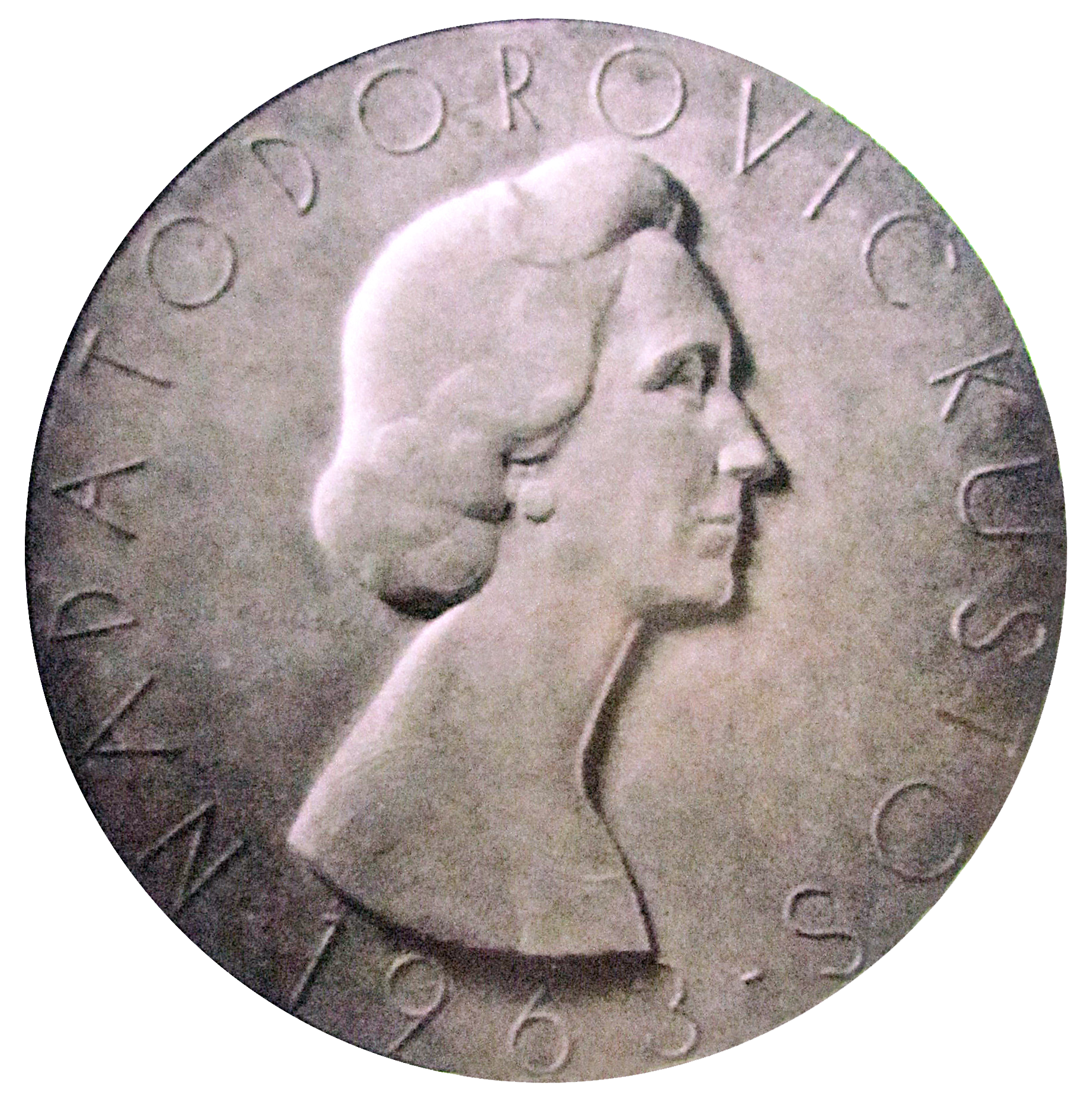 Nada Todorovic, custos of National Museum of Serbia